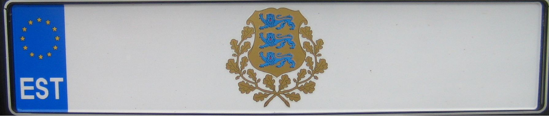 Estonian Presidential license plate